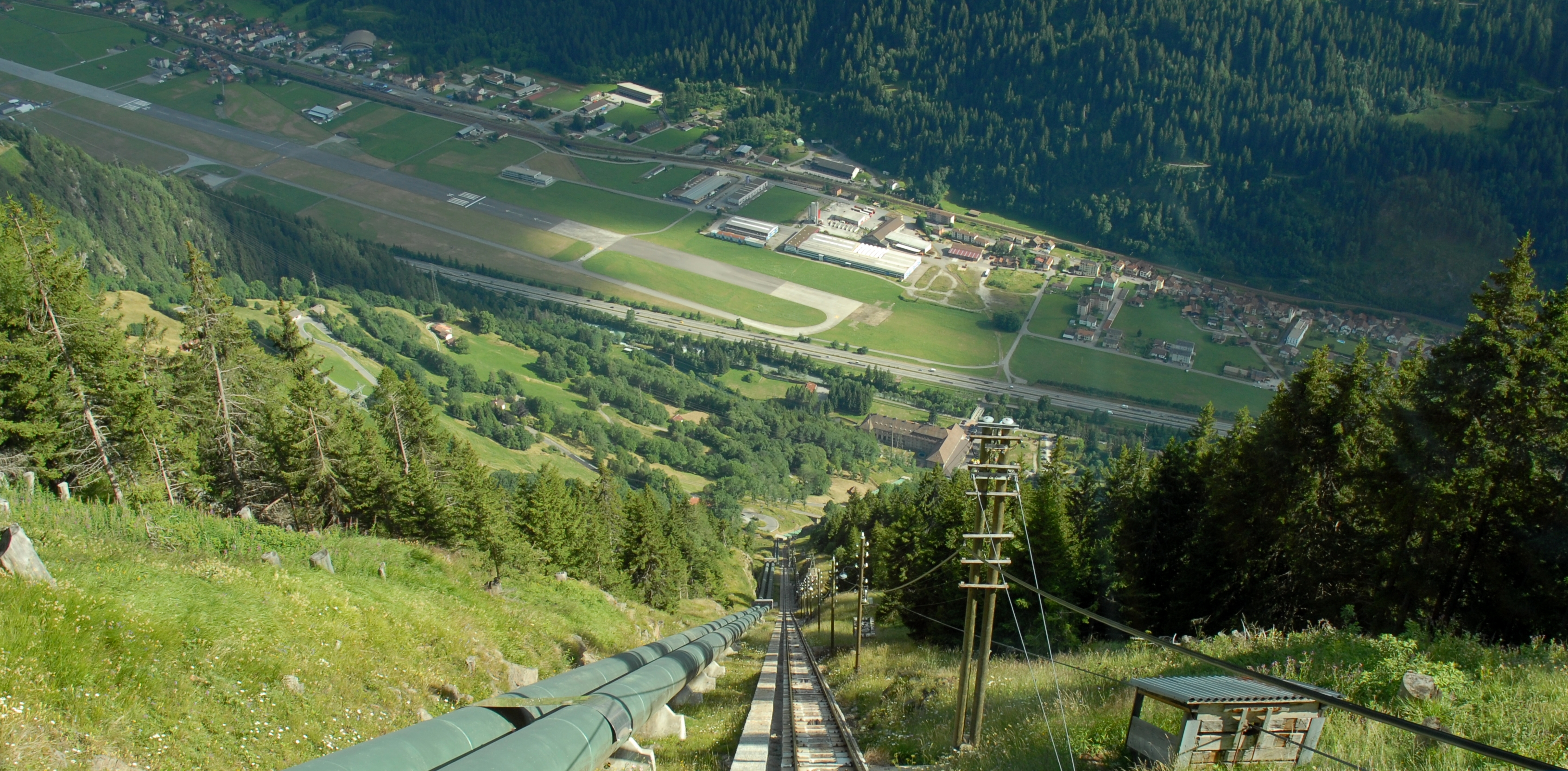 View down the Ritom funicular in the Swiss canton of Ticino. Ambri Airport can be seen at the bottom of the valley. For more information, see the Wikipedia articles Ritom funicular and Ambri Airport.